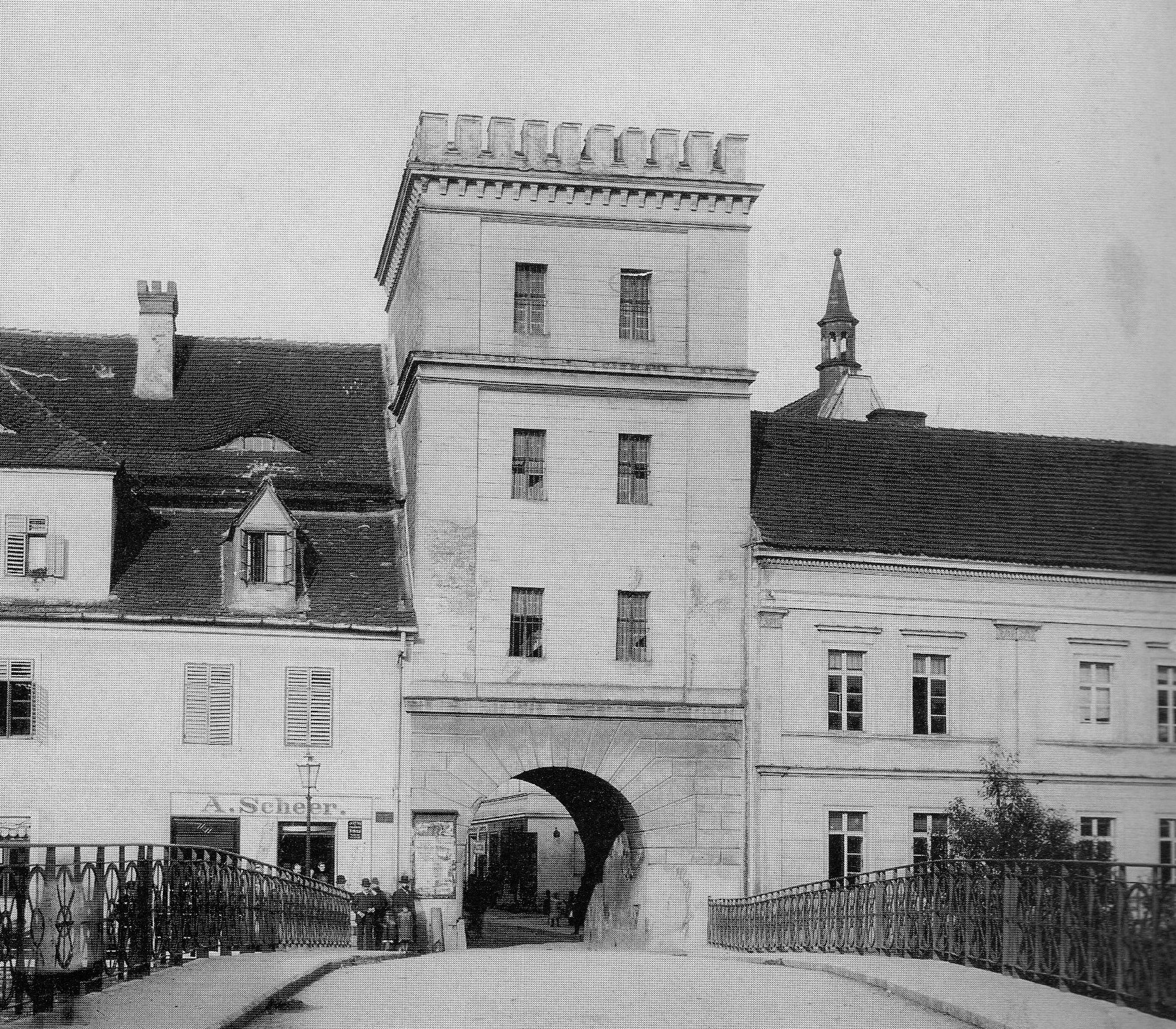 The Odertor in Opole, 1880